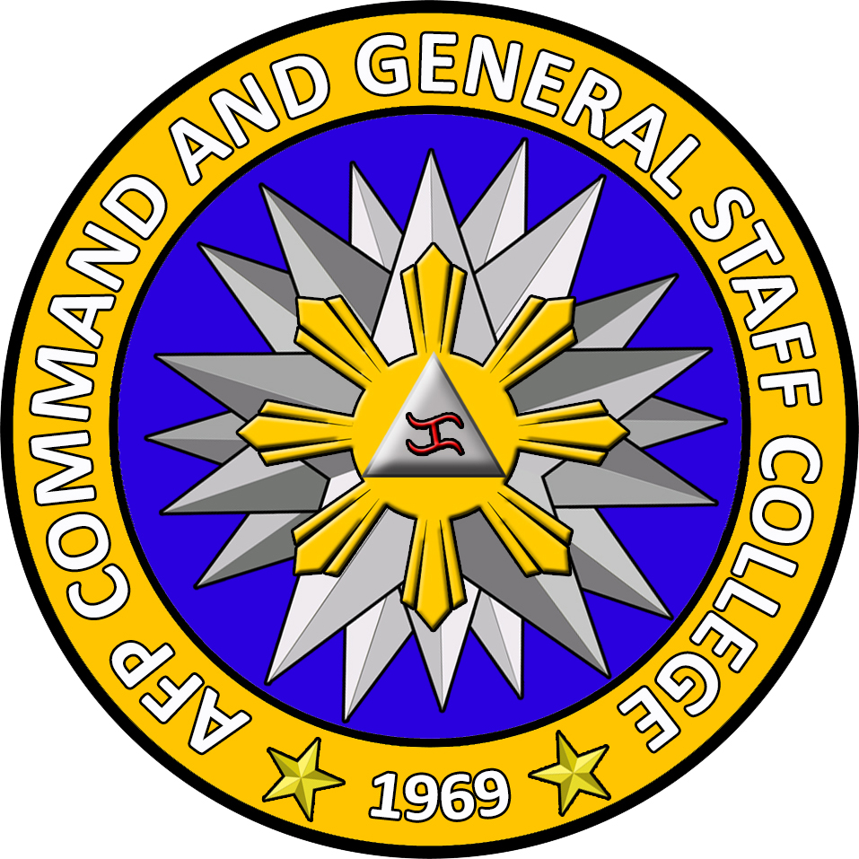 AFP Command and General Staff College.